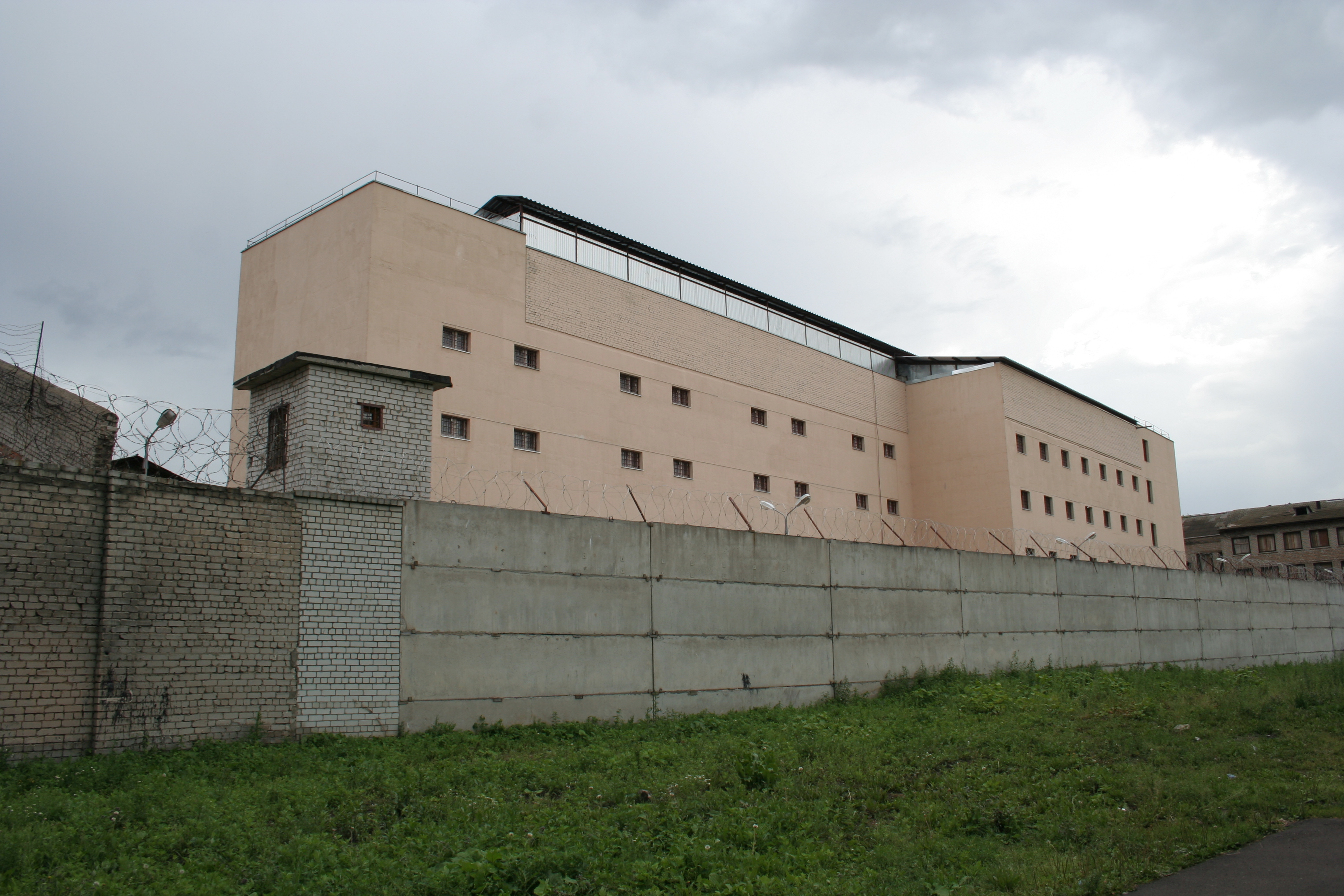 Detention prison Korovniki in Yaroslavl, Russia